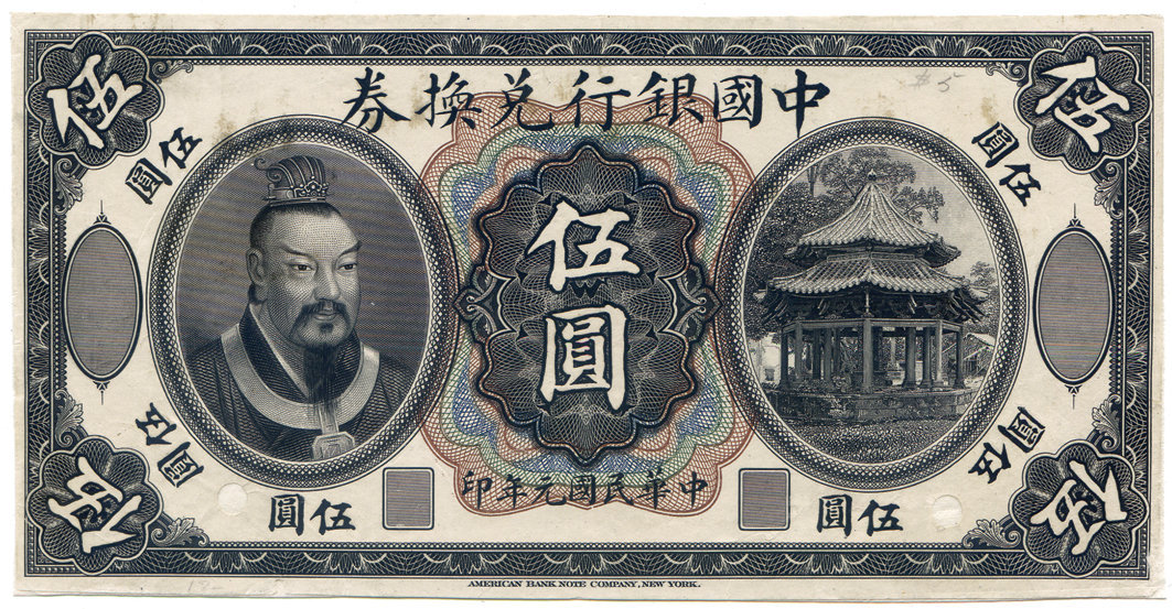 Chinese 5 yuan banknote issued by Government of the Republic of China in June 1st, 1912. Yellow Emperor can be seen on the left side, a pagoda on the right side.